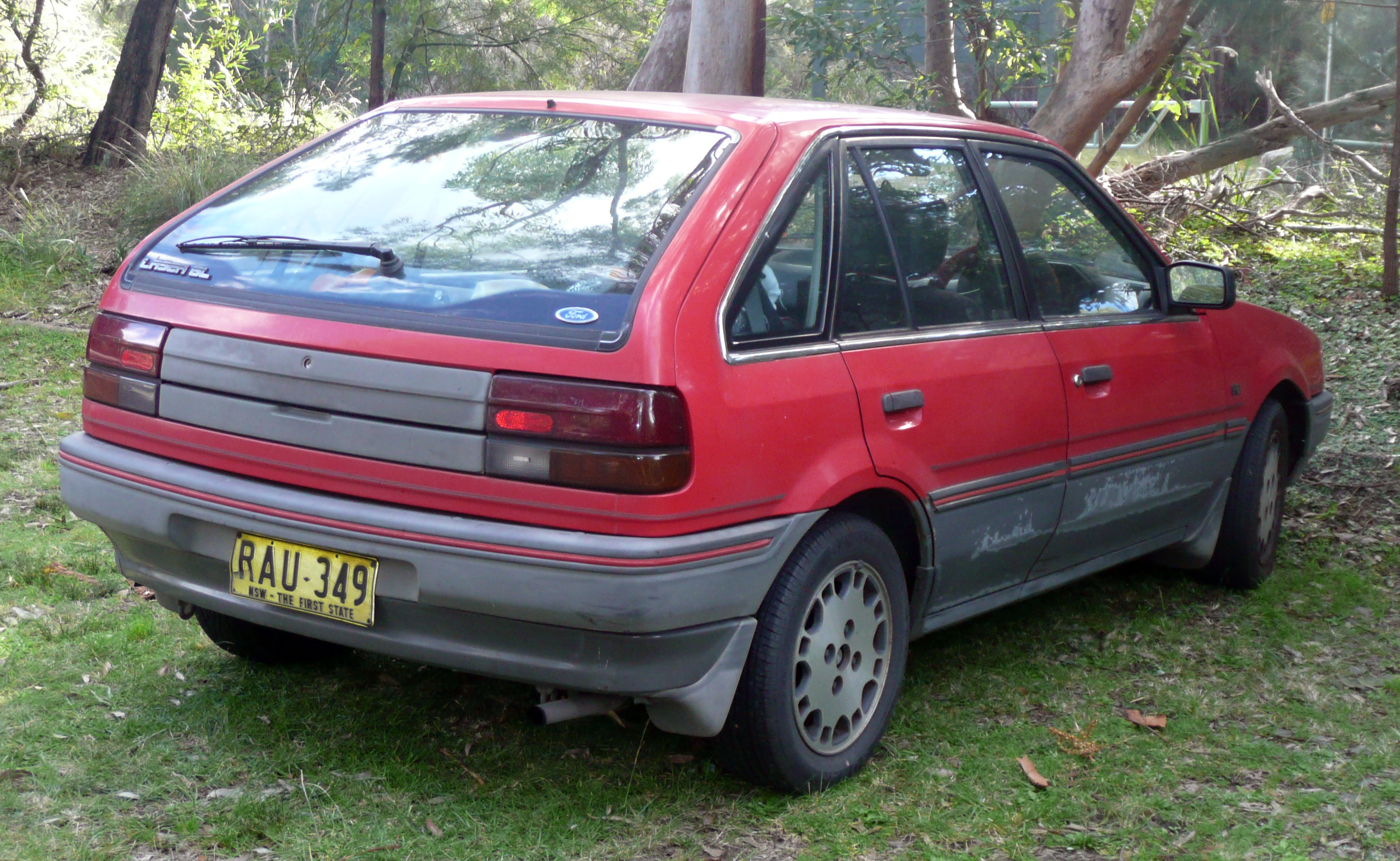 1989 Ford Laser (KE) GL Redline 5-door hatchback. Photographed in Audley, New South Wales, Australia.